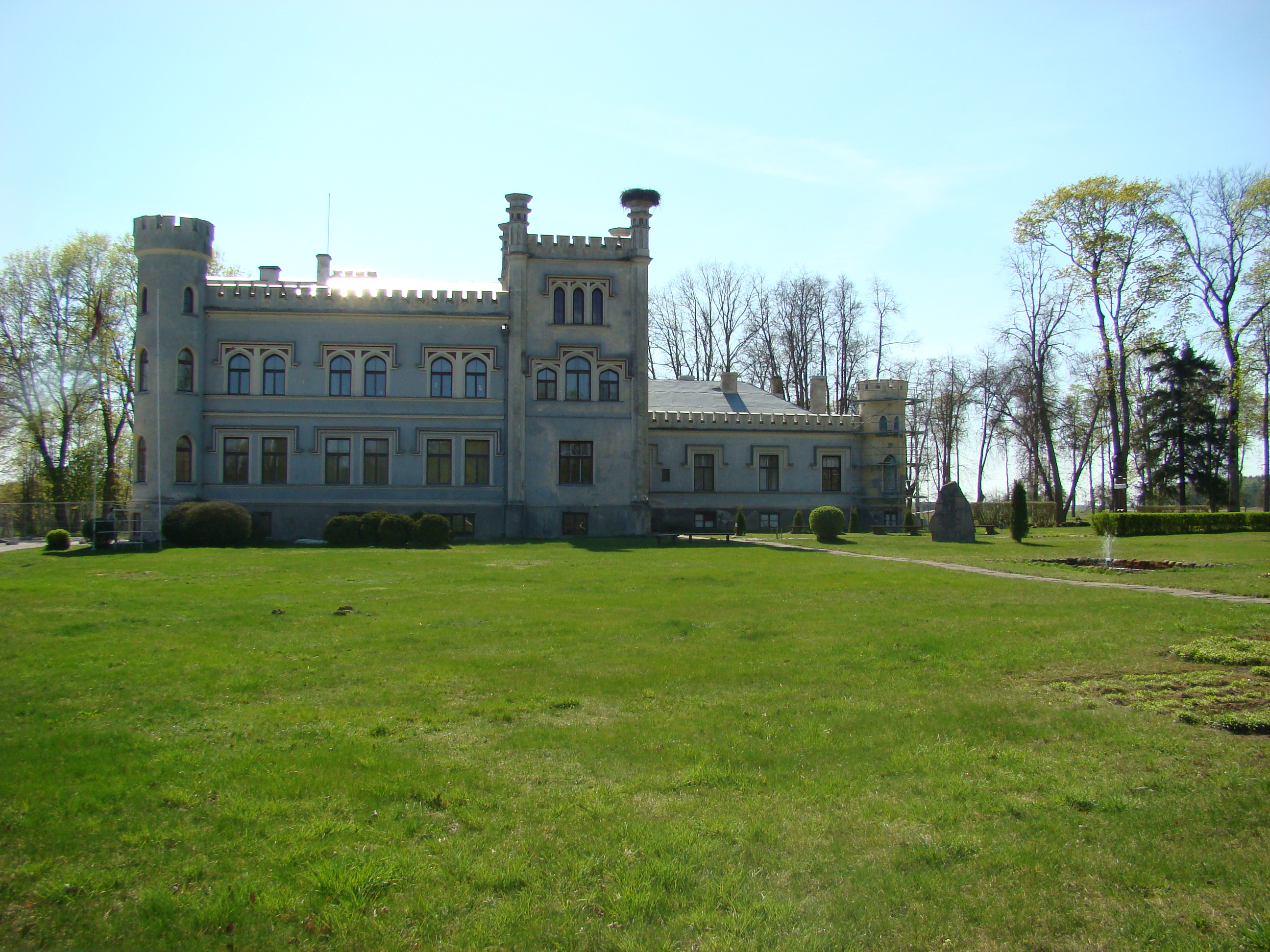 Gārsene manor in Latvia.